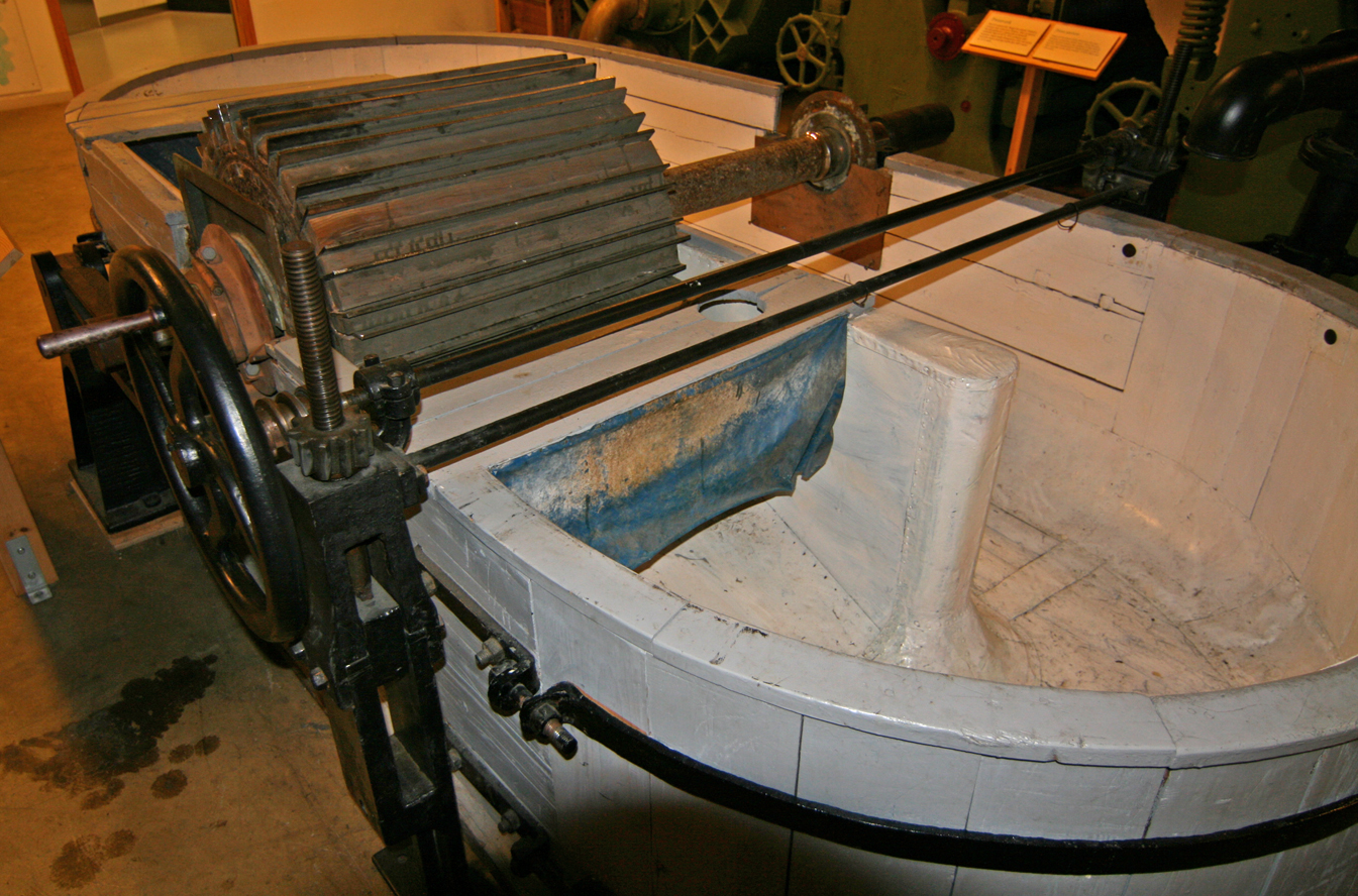 A Hollander was used in a pulp mill to cut the fibres of the pulp to the right length.